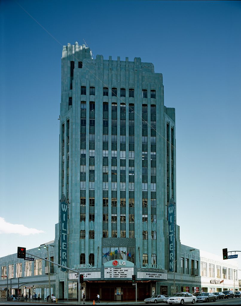 The Wiltern Theater — Art Deco landmark on Wilshire Boulevard and Western, in the Mid-Wilshire district of Los Angeles, Southern California. Designed by Morgan, Walls & Clements.